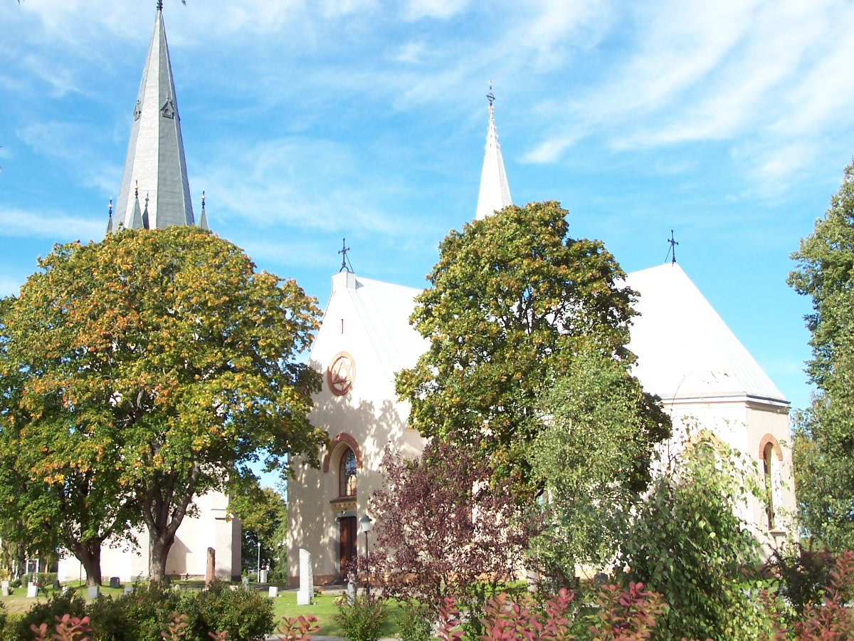 Harmånger church, Sweden